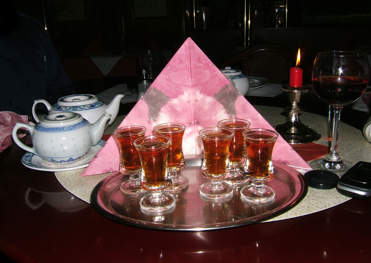 Plum wine served in a chinese restaurant, besides Tea pots and a Glass of red wine